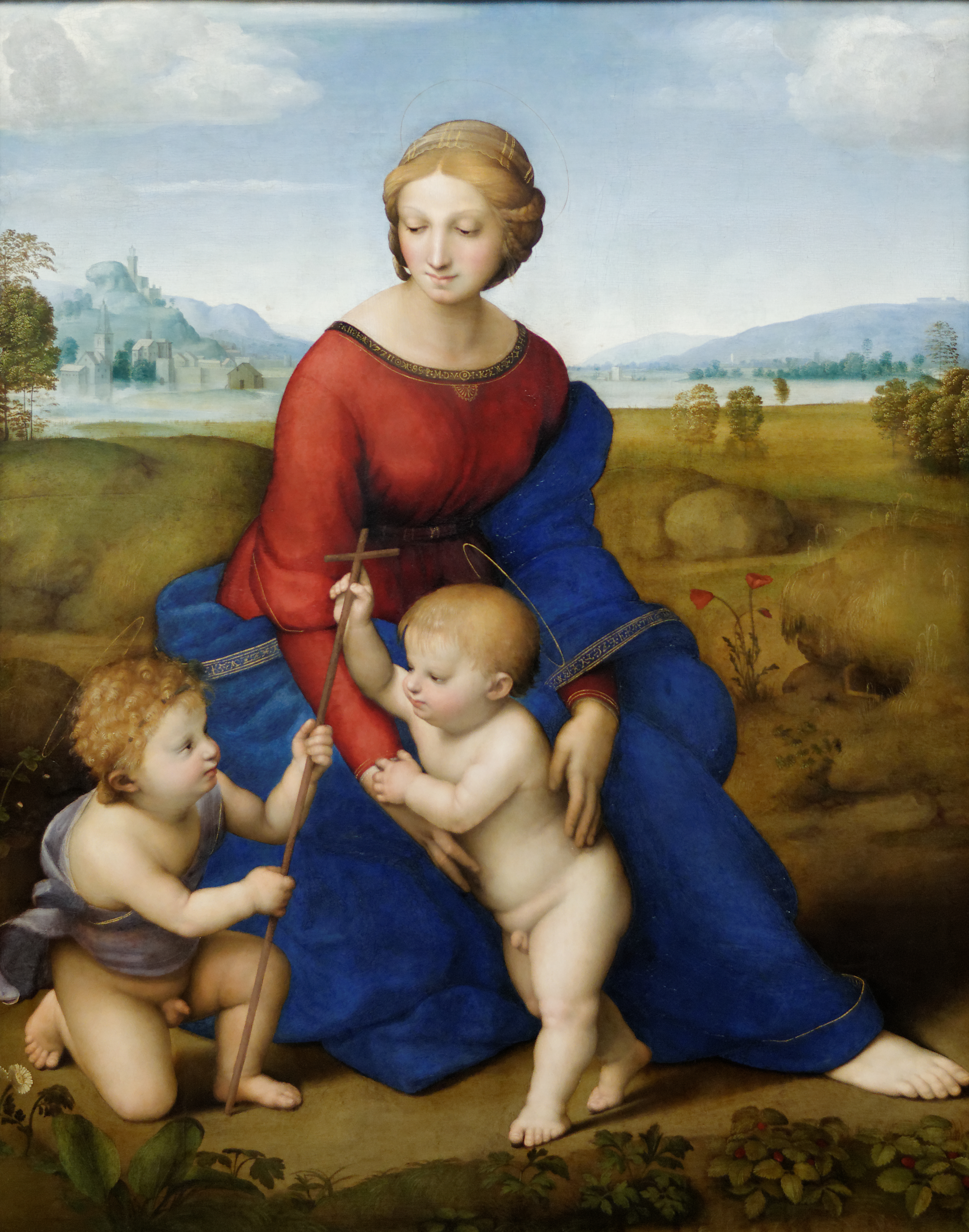 The Madonna of the Meadow(Madonna del prato or Madonna del Belvedere)label QS:Len,"The Madonna of the Meadow(Madonna del prato or Madonna del Belvedere)"label QS:Lfr,"La Madone à la prairie ou La Madonne du Belvédère"